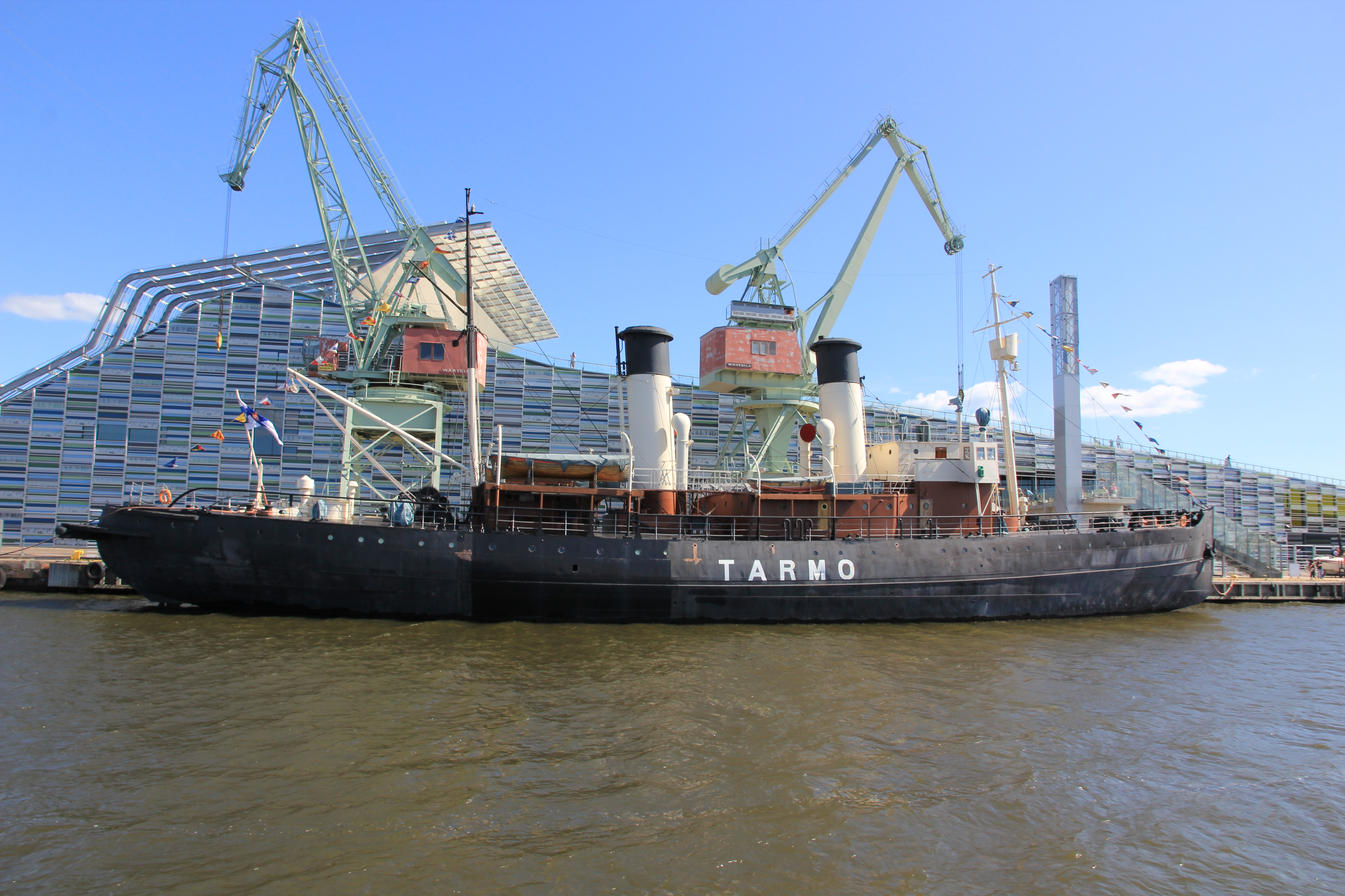 Old Finnish icebreaker Tarmo as museum ship in maritime centre Vellamo.